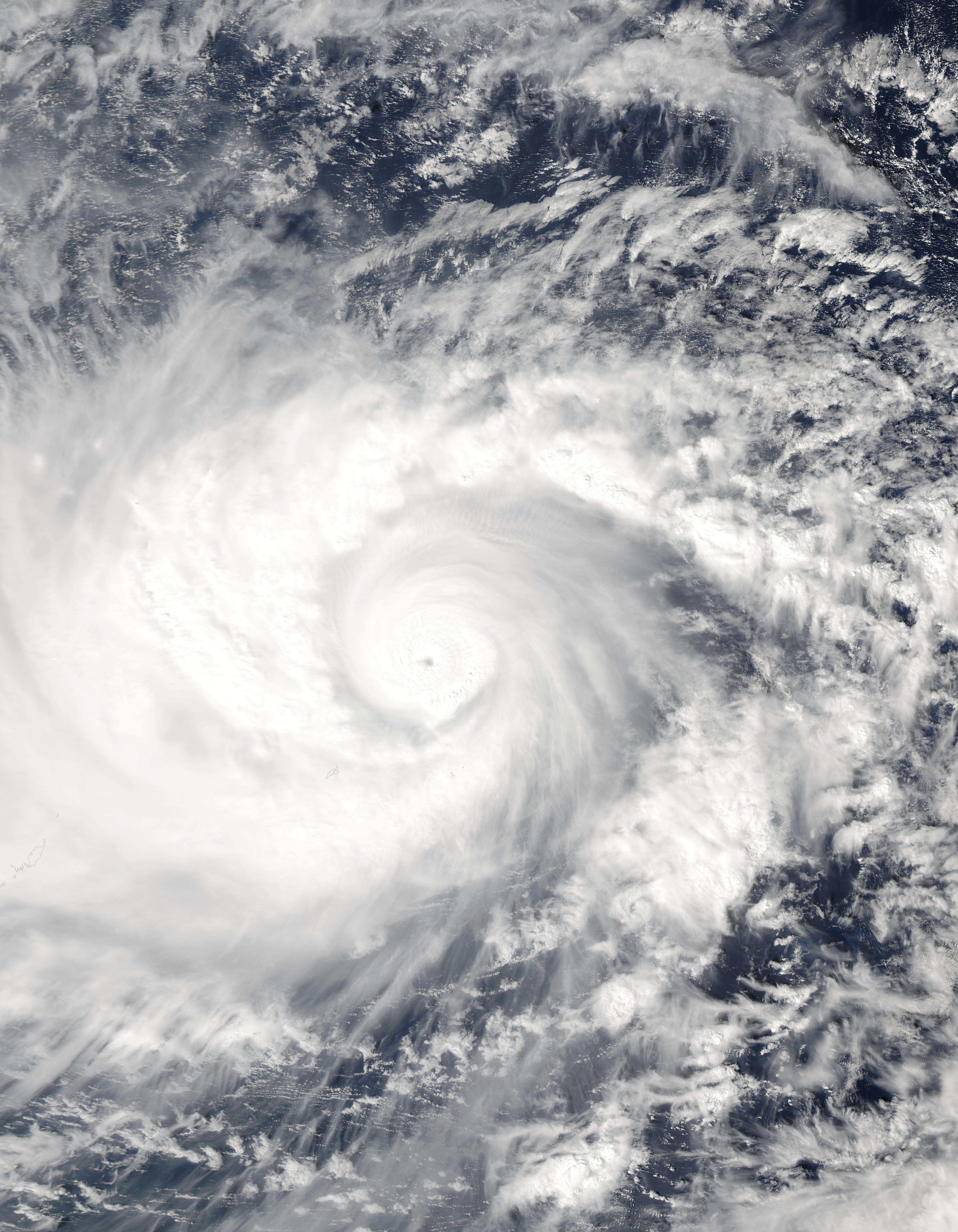 Typhoon Lupit moves through the North Pacific just east of Guam in this true-color Moderate Resolution Imaging Spectroradiometer (MODIS) image. At the time this image was taken on November 25, 2003, the storm boasted maximum sustained winds of 132 miles per hour (115 knots) with gusts up to 160 miles per hour (140 knots). The Aqua satellite recorded this image.